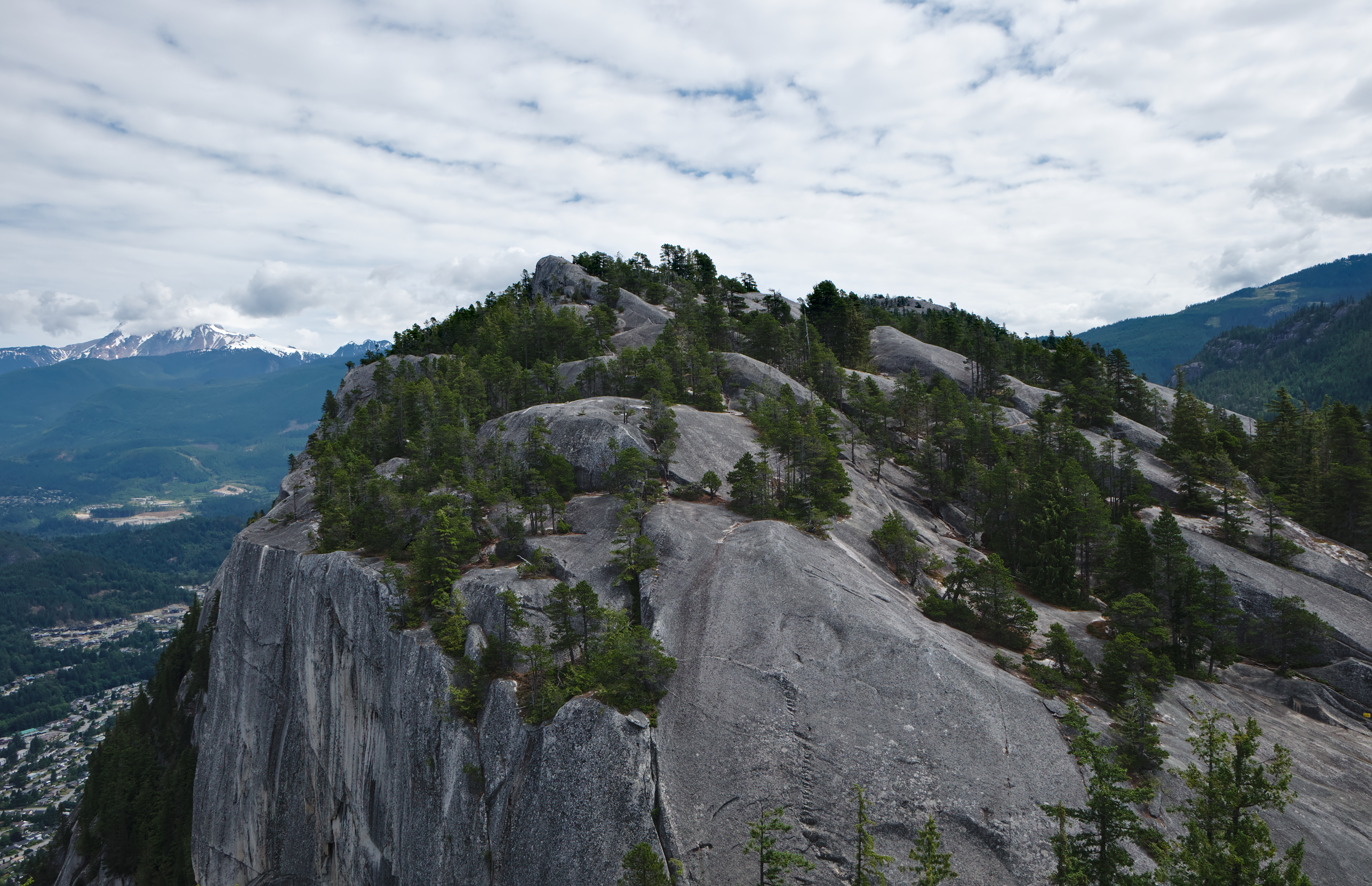 Second peak viewed from first peak of the Chief hike at Stawamus Chief Provincial Park, BC This photo was taken in a protected area in Canada, Wikidata item Stawamus Chief Provincial Park (Q1277588)